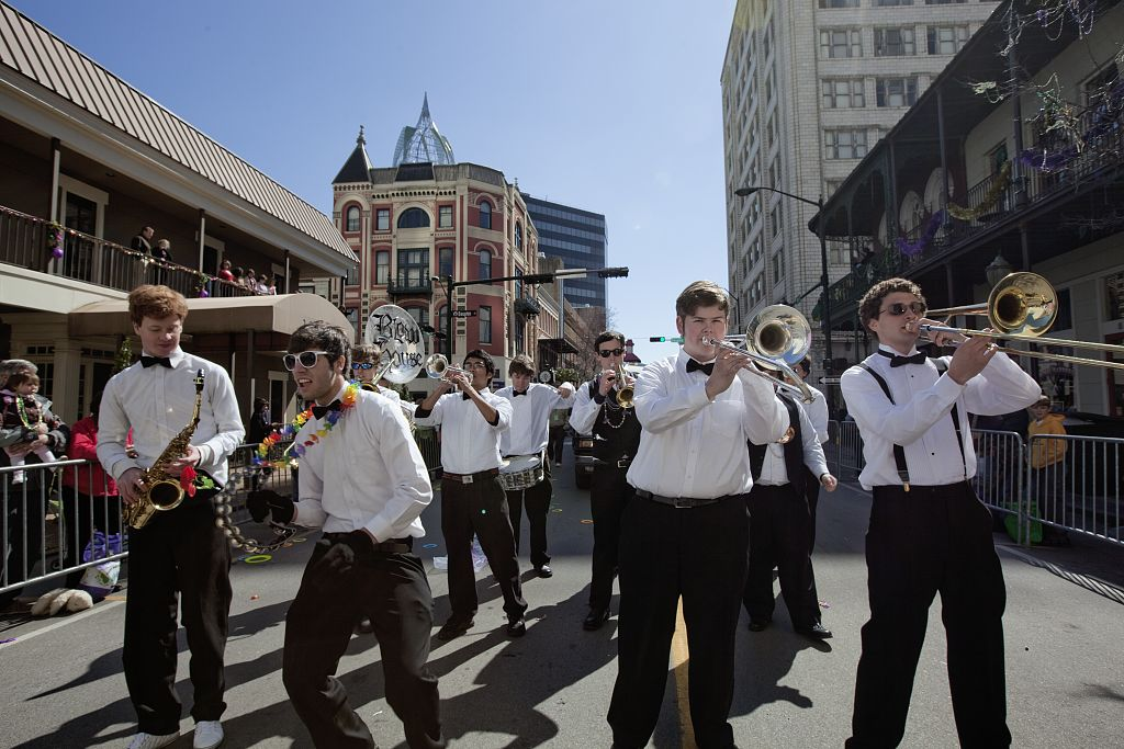 Mardi Gras, Mobile, Alabama.